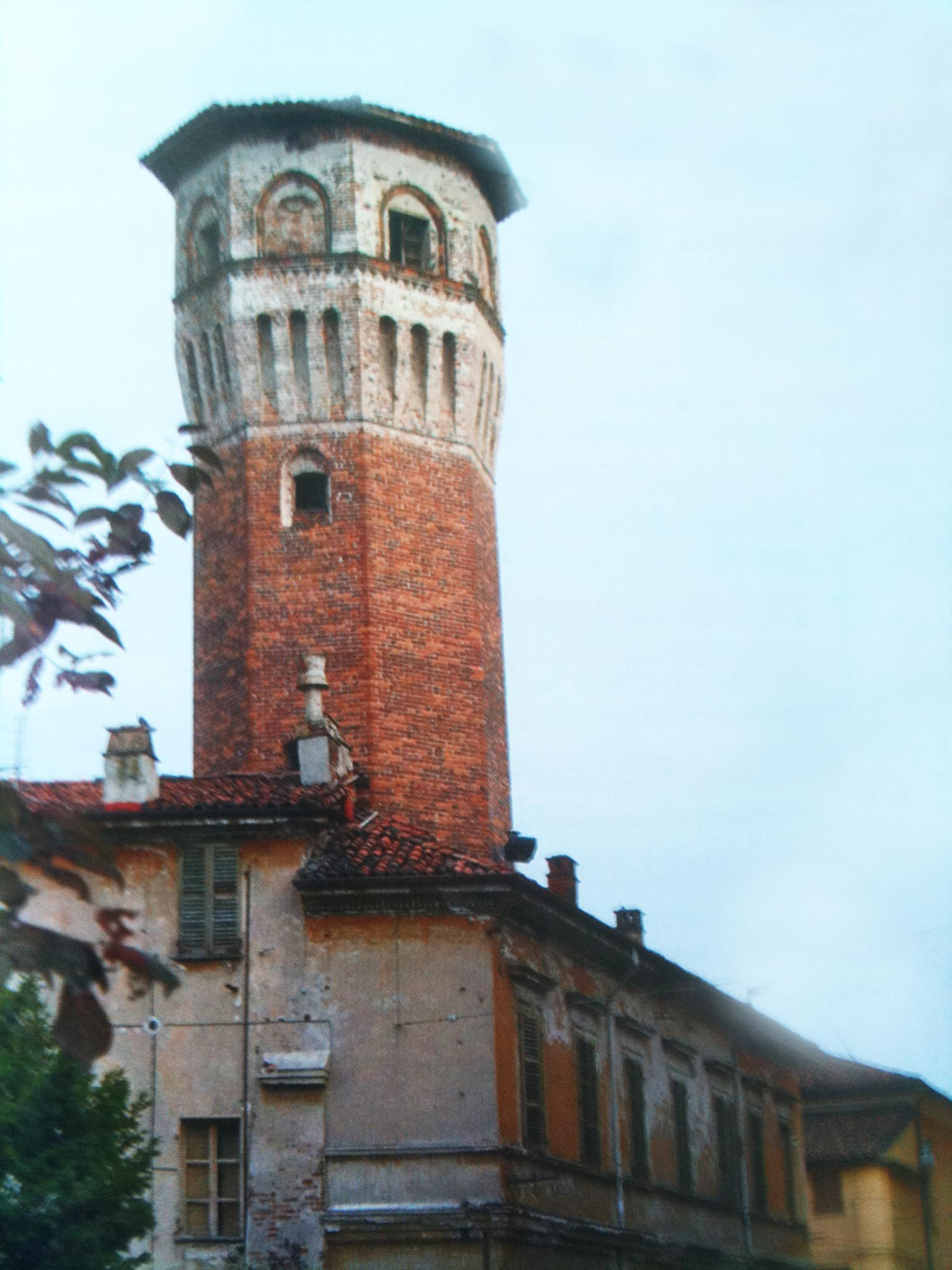 Torre Vialardi Vercelli